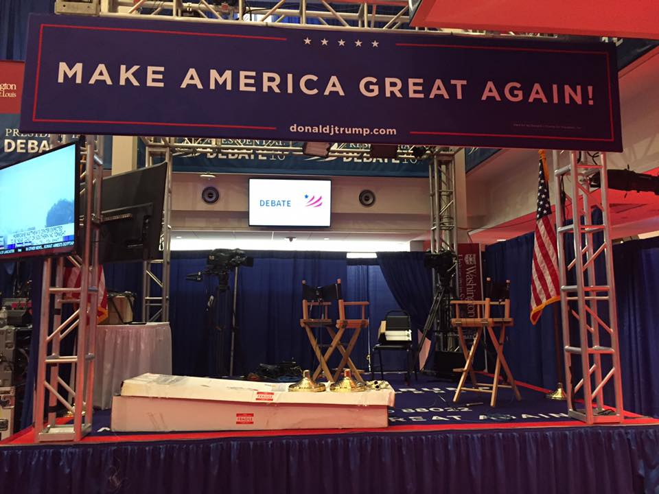 Spin room